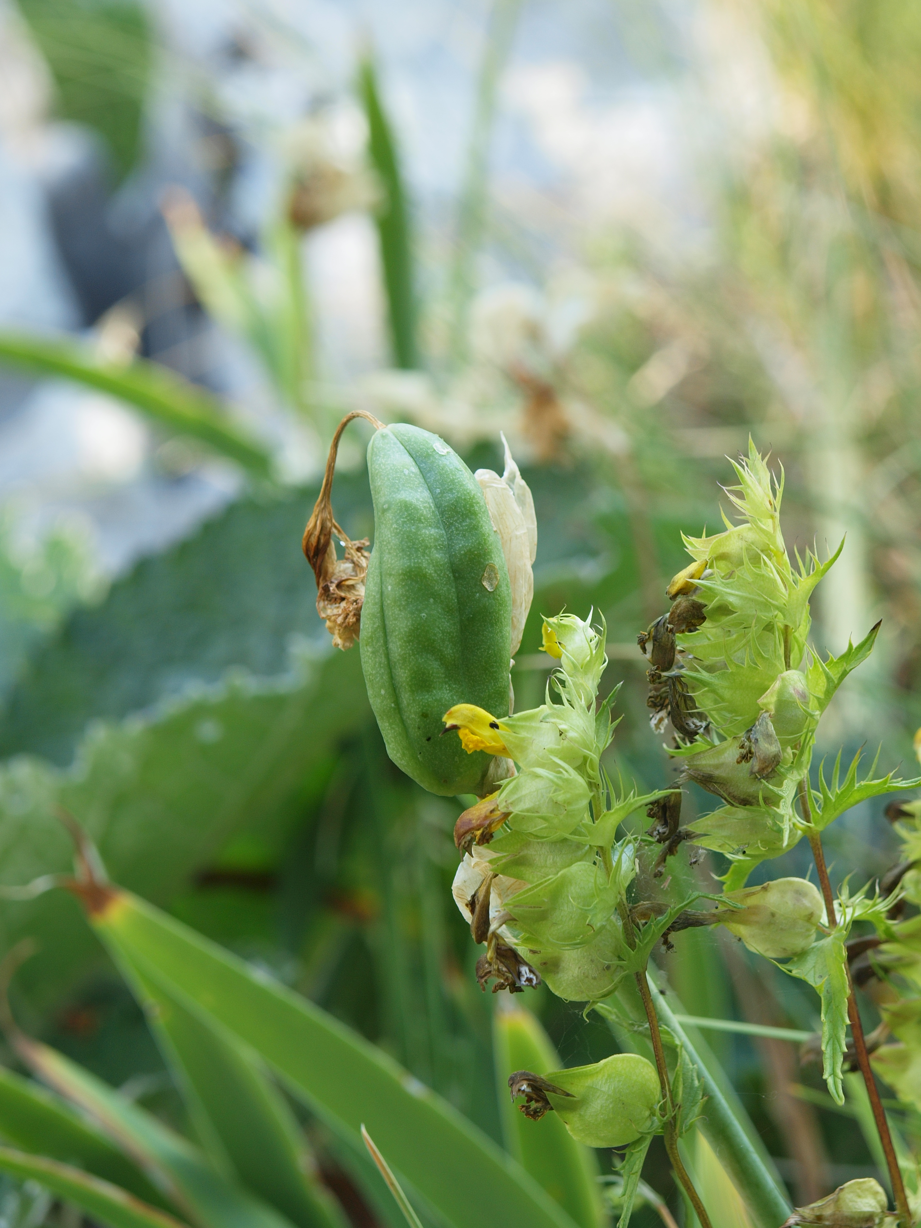 Iris orjenii Brächler & Cikovac capsule at situ, Bijela gora 2015 leg Cikovac